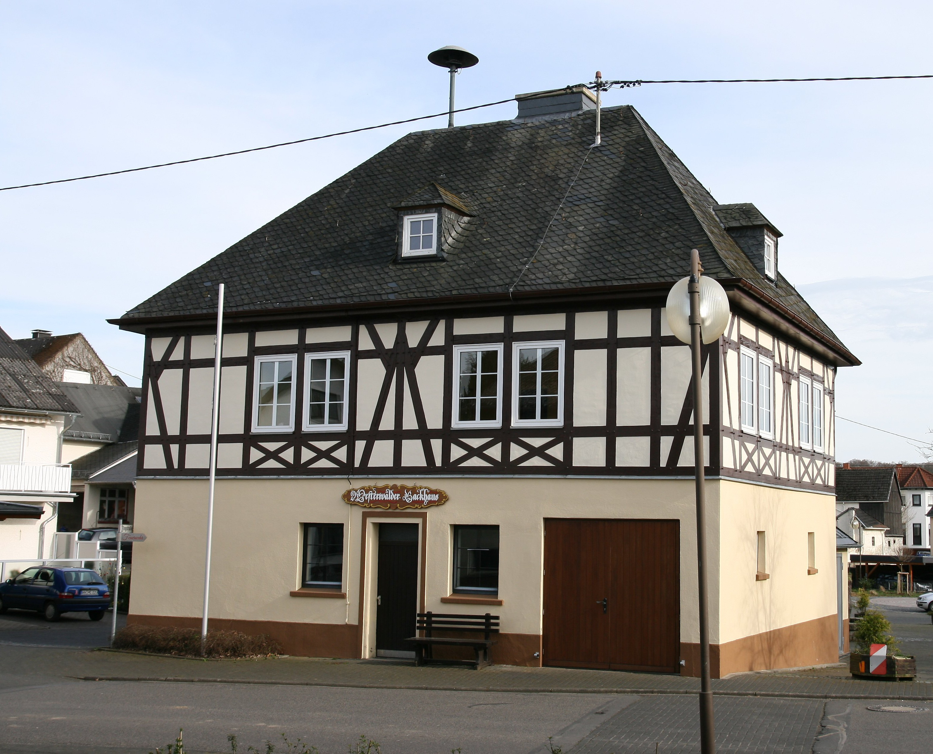 Village Hall, errected approx. 1920/30. Cultural heritage. Location: Ringstraße 2, Marienrachdorf, Westerwald, Germany